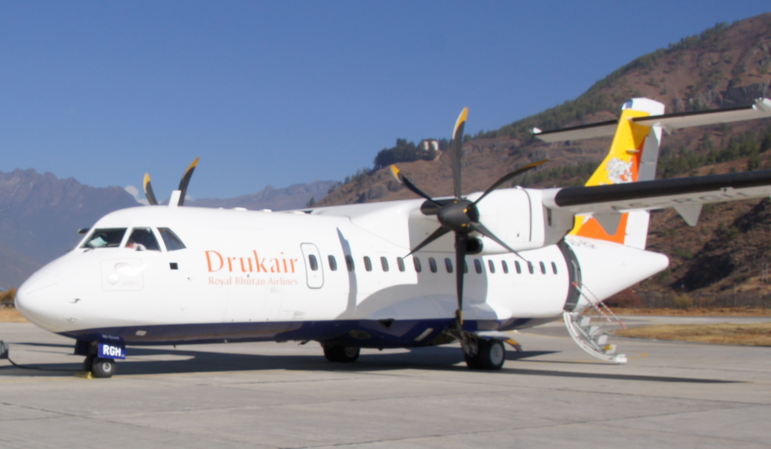 Druk Air ATR 42 at Paro Airport